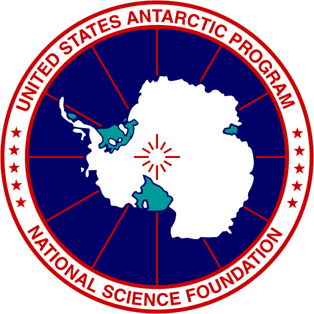 The ice-covered continent of Antarctica is white, and the major ice shelves (i.e., floating glacier ice) are light blue. Lines of longitude are red, and the Prime Meridian (Greenwich, or 0 ° longitude) points up. The National Science Foundation, a Federal agency, funds and manages the program. Field participants include scientists from universities, other research institutions, and Federal agencies, the NSF contractor Antarctic Support Associates and other contractors and subcontractors, the Department of Defense (Navy and Air Force), and the Coast Guard.